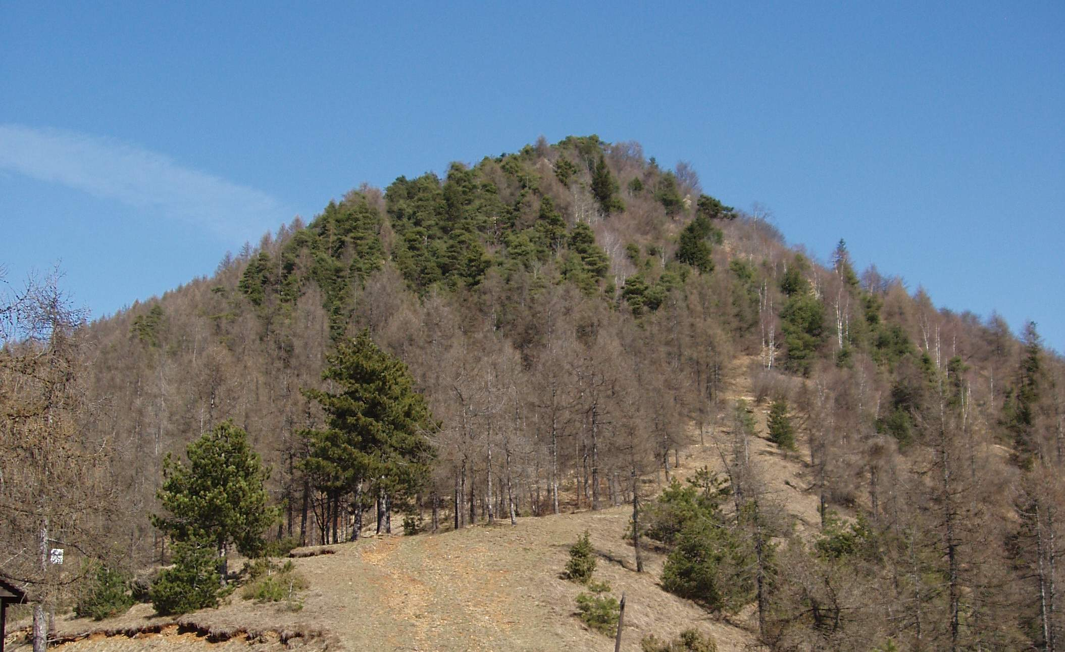 South ridge of Mount Arpone (fom the sanctuary of Madonna della Bassa - Rubiana, Piedmont, Italy)